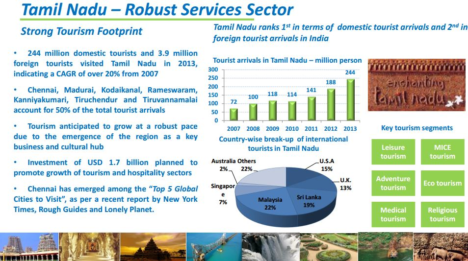 Tamil Nadu Service Sector